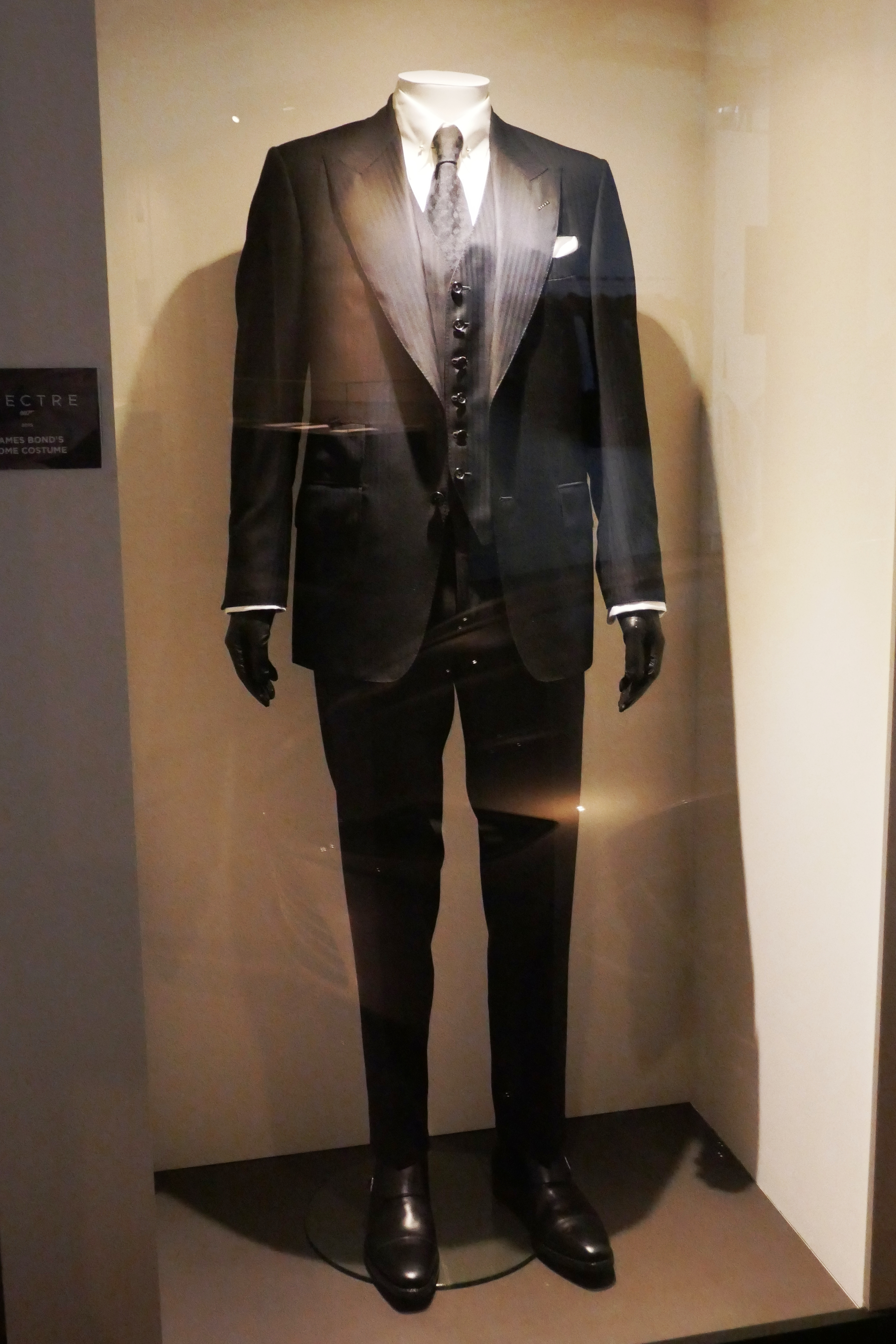 James Bond's costume worn in Rome from the movie "Spectre" National Film Museum, London - Bond in Motion Exhibition (2017)